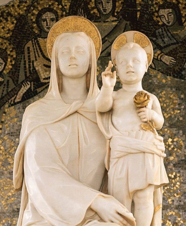 Sculpture "Mother of Fair Love", by sculptor Pasquale Sciancalepore, a gift of Josemaría Escrivá to the University of Navarra, Pamplona, Spain